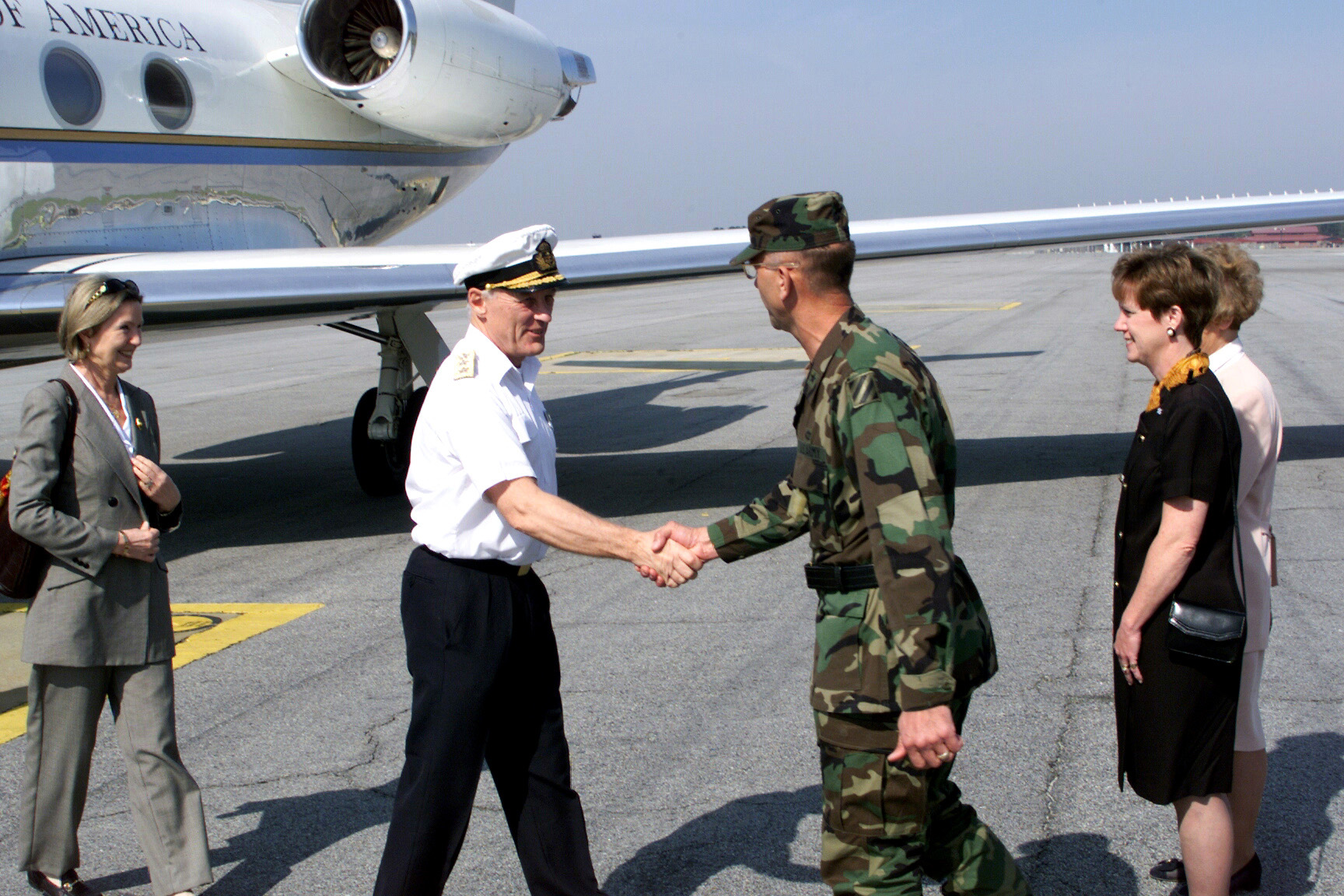 Vice Admiral Frank Rosenius (2nd from left), Deputy Supreme Commander, Swedish Defense Forces, is greeted by US Army Brigadier General Hank Stratman (2nd from right), Assistant Division Commander for Support, 3rd Infantry Division (Mechanized), during his visit to Hunter Army Airfield, Georgia.